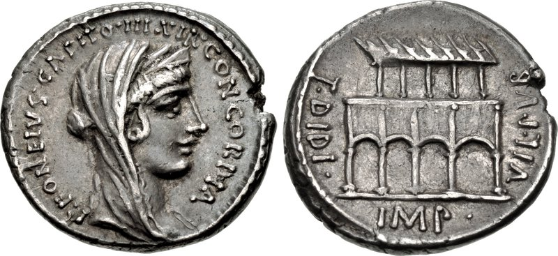 P. Fonteius P.f. Capito 55 BC. AR Denarius (18mm, 3.74 g, 7h). Rome mint. Veiled head of Concordia right, wearing stephane; P • FO(NT)EIVS • CAPITO • III • VIR • CONCORDIA around / Façade of the Villa Publica; T • DIDI • downward to left; VIL • PVB upward to right; IMP • in exergue. Crawford 429/2a; Sydenham 901; Didia 1; Kestner 3475; BMCRR Rome 3860; RBW 1537. Near EF, toned, flan slightly irregular. From the RAJ Collection. Ex Bill Behnen Collection (Freeman & Sear 17, 15 December 2009), lot 149.